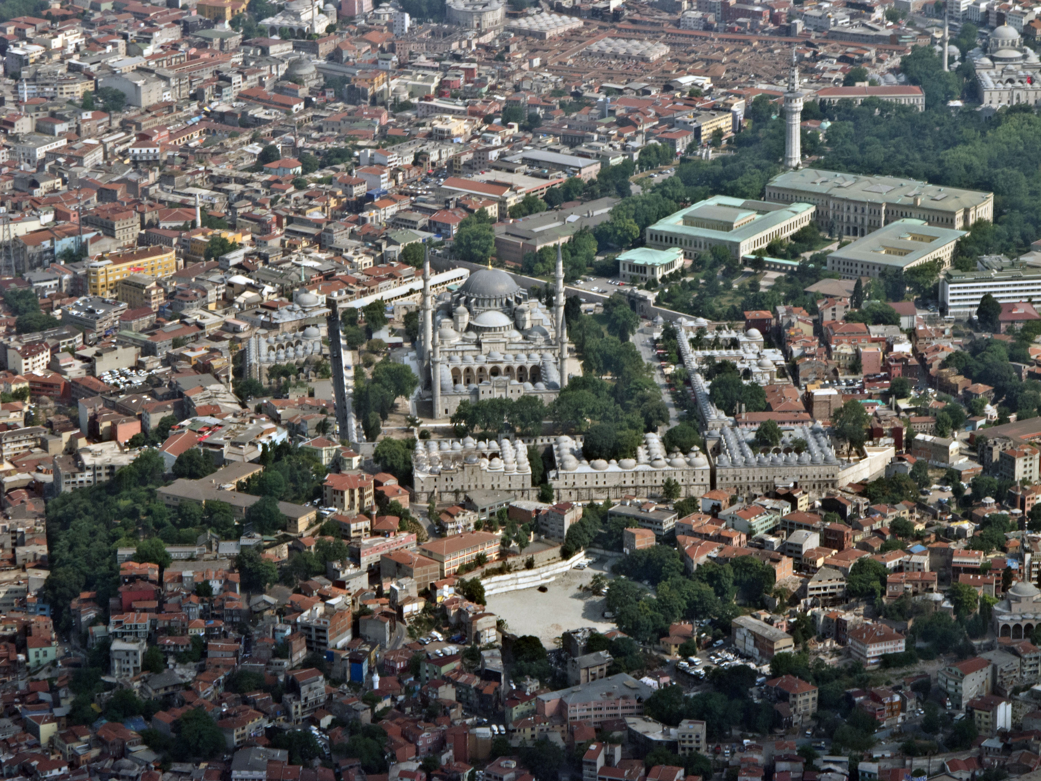 Aerial view of Süleymaniye Mosque and Istanbul University, Istanbul, Turkey.